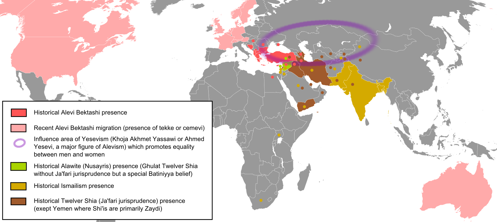 Map of the influence area of Alevi Bektashi and Yesevi beliefs